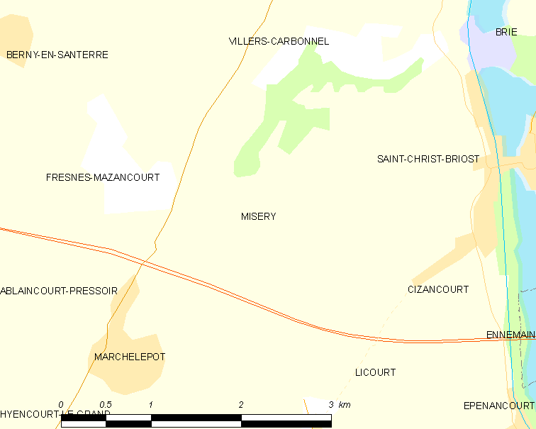 Map of French municipality Misery